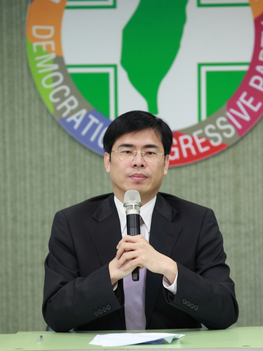 Chen Chi-Mai